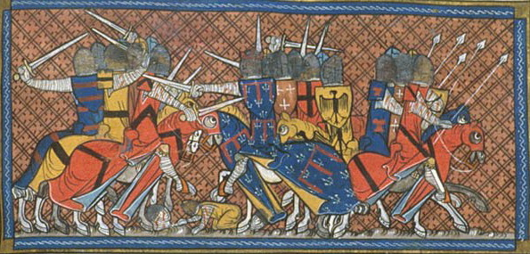 Battle of Benevento and death of King Manfred, 1266. (British Library, Royal 16 G VI f. 432)